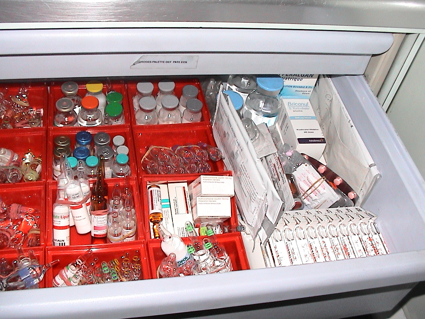 Ambulances Drug Storage